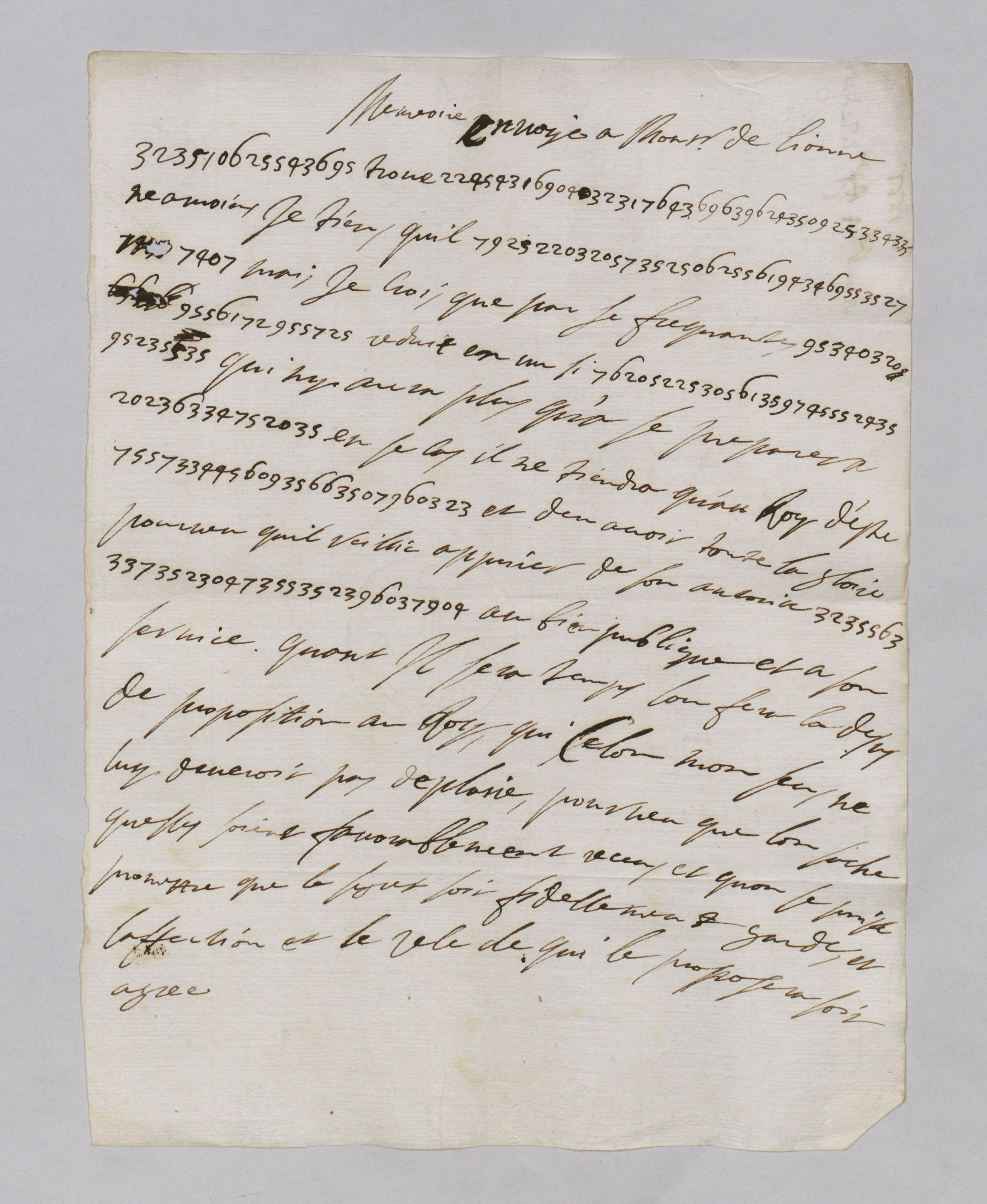 Letters written by Queen Christina of Sweden to Cardinal Decio Azzolino (written between 1666 and 1668). A total of 80 letters, with a varying number of pages per letter. The original letters are found in the Swedish National Archives, Stockholm (Azzolino-collection, K 394). Image 38 of 297. Photo: Jan Andersson (National Archives, Sweden)